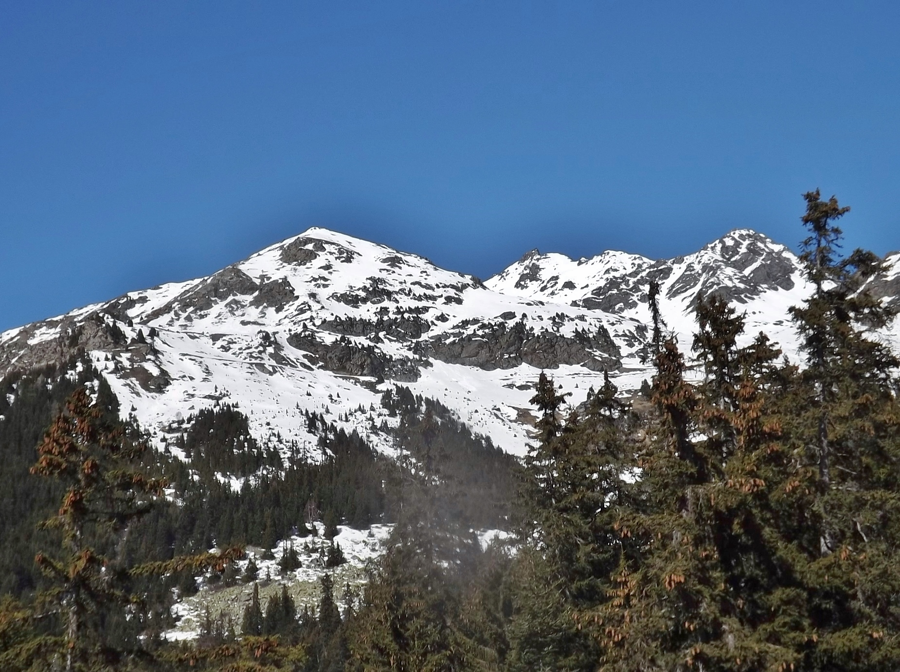 Sight, from the cableway to Les 3 Vallées, of the northern side of the French commune of Orelle, in Savoie, France.